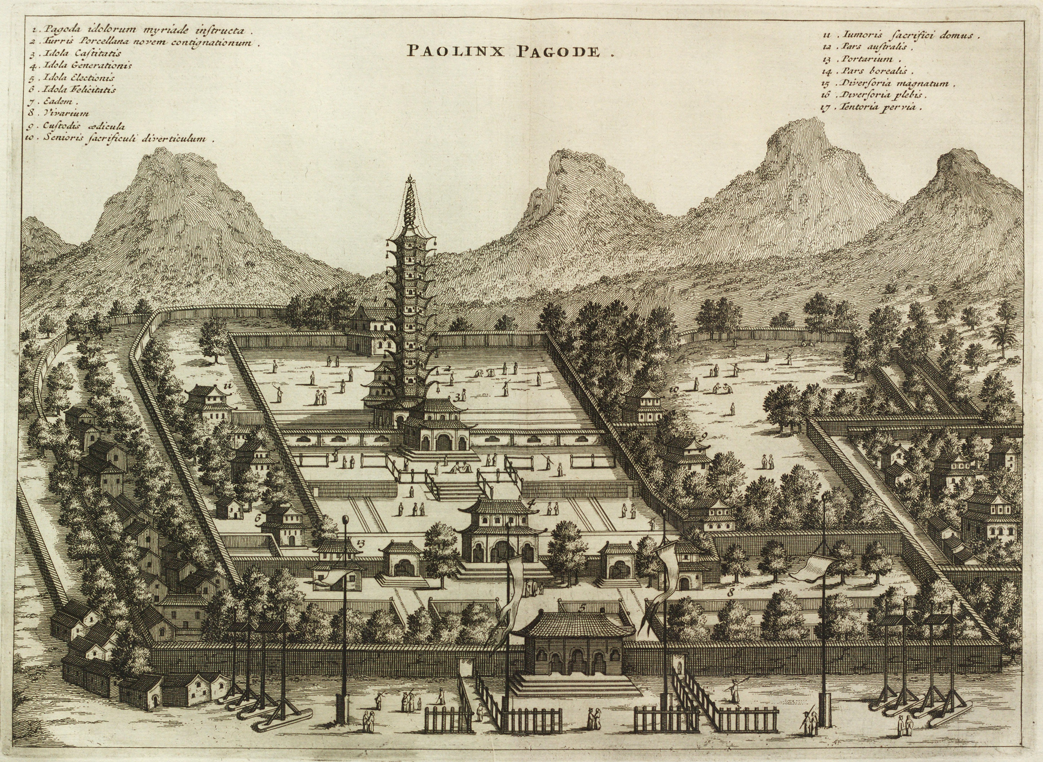 Illustration from Olfert Dapper (1670): Gedenkwaerdig bedryf der Nederlandsche Oost-Indische maetschappye